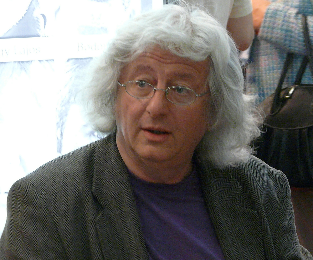 Hungarian writer Péter Esterházy. International Bookfest in Budapest, 2010.